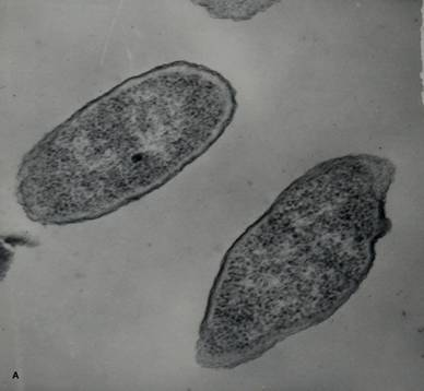 In the course of cultivation, after 4 hours culture microbial population has undergone significant qualitative changes. From the culture broth disappeared old damaged cells and the number of bacteria with intact ultrastructure risen to 80-90%.